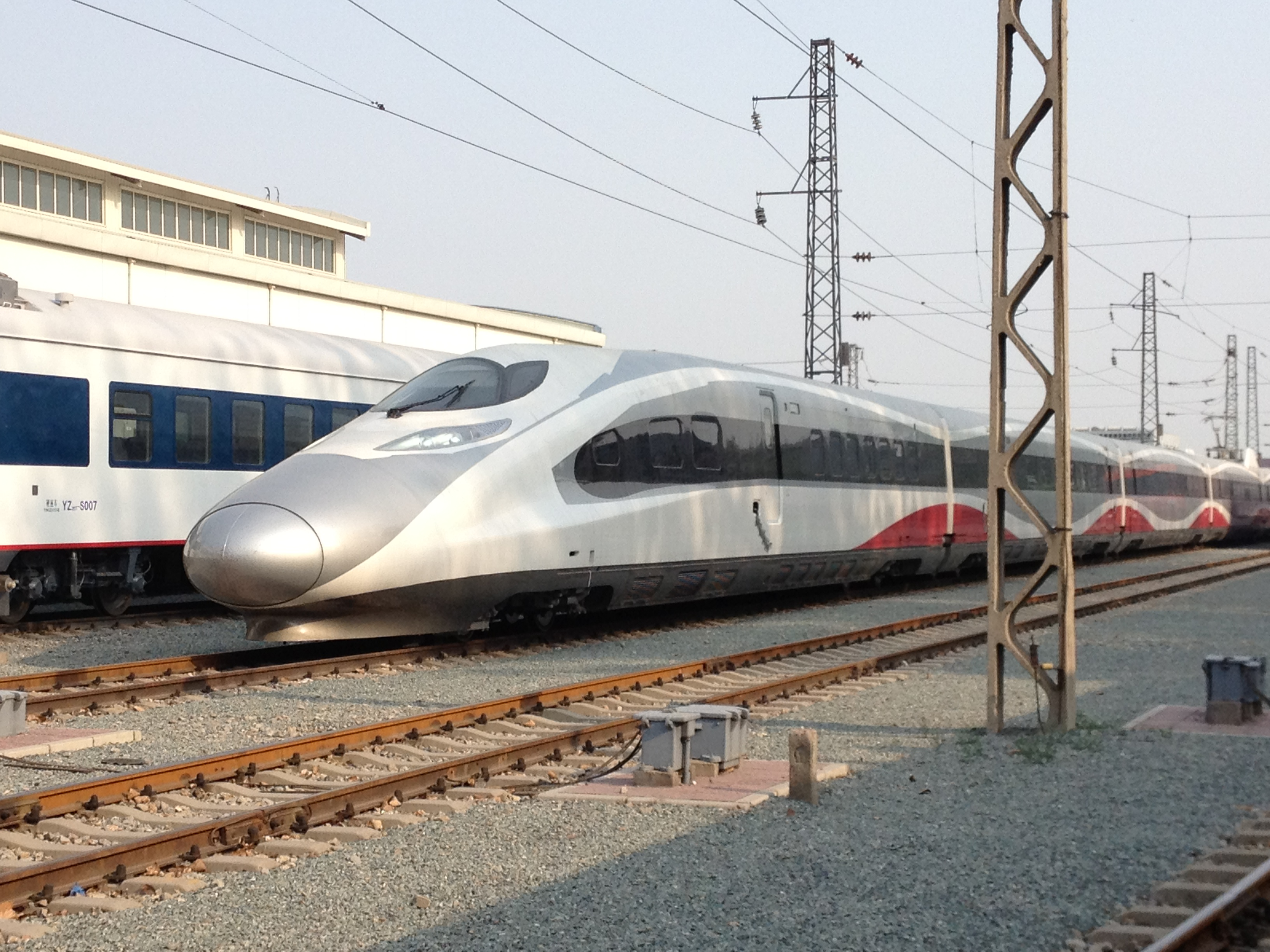 MTR CSR Sifang EMU